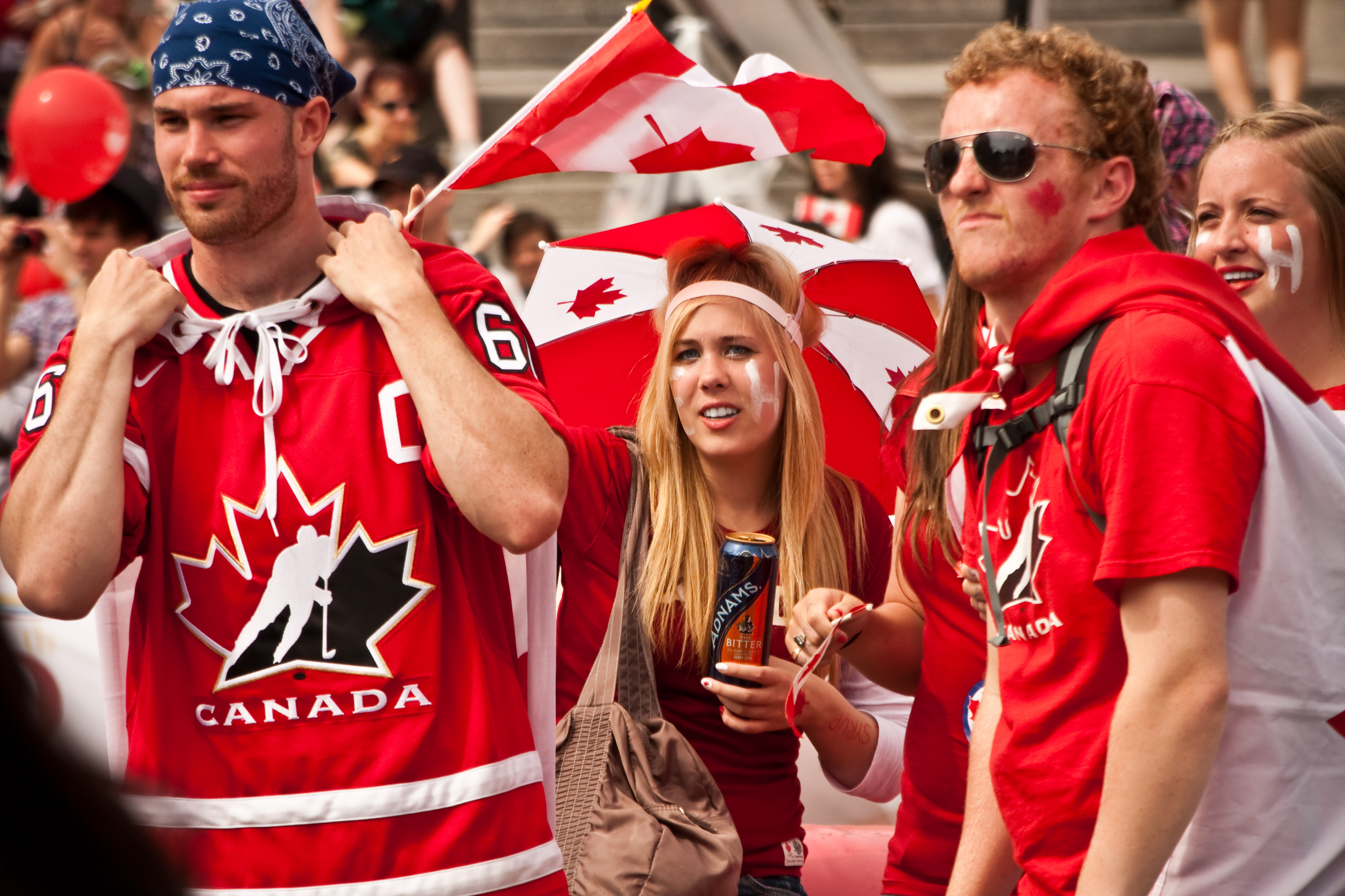 Pictures of people enjoying the Canada Day celebrations at London's Trafalgar Square.